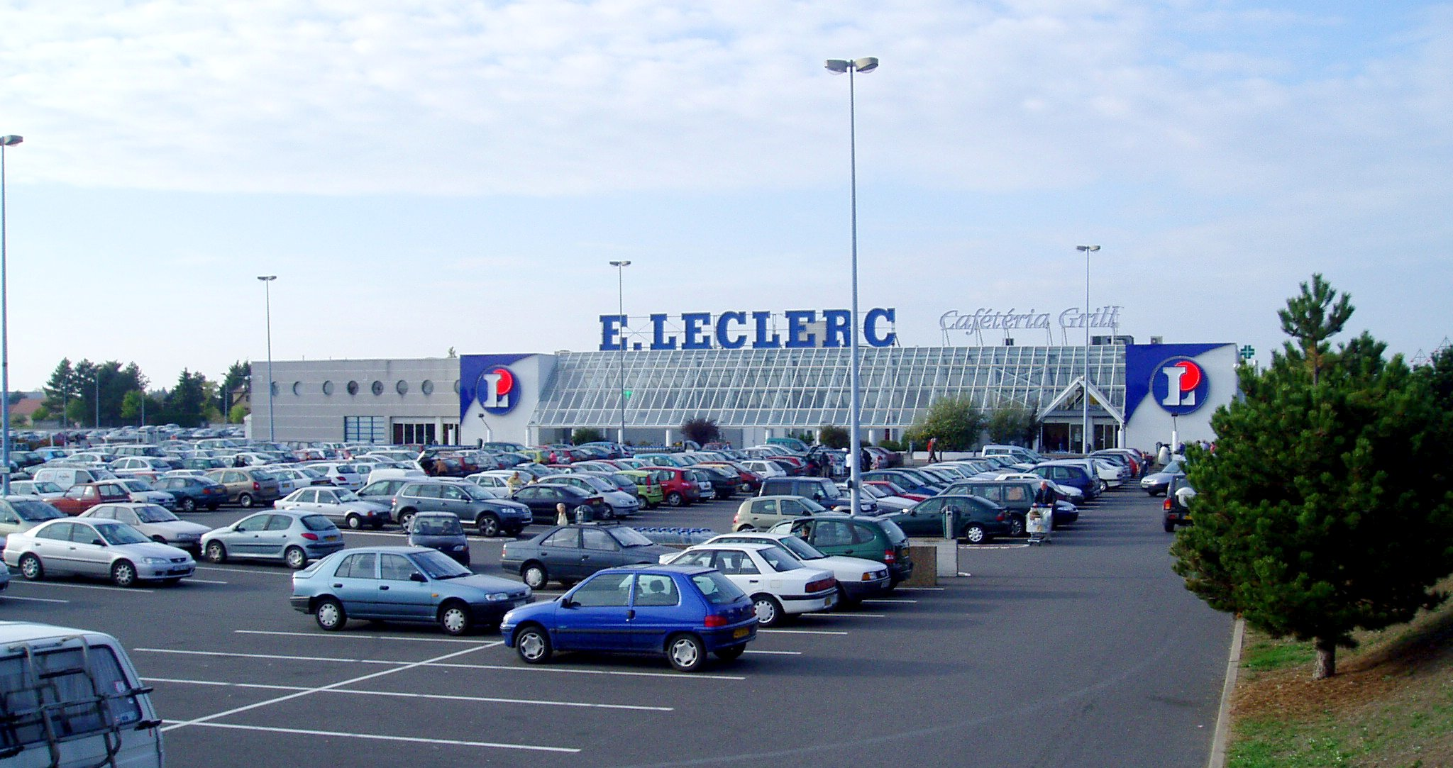 E.Leclerc, Avermes, Allier, Auvergne, France